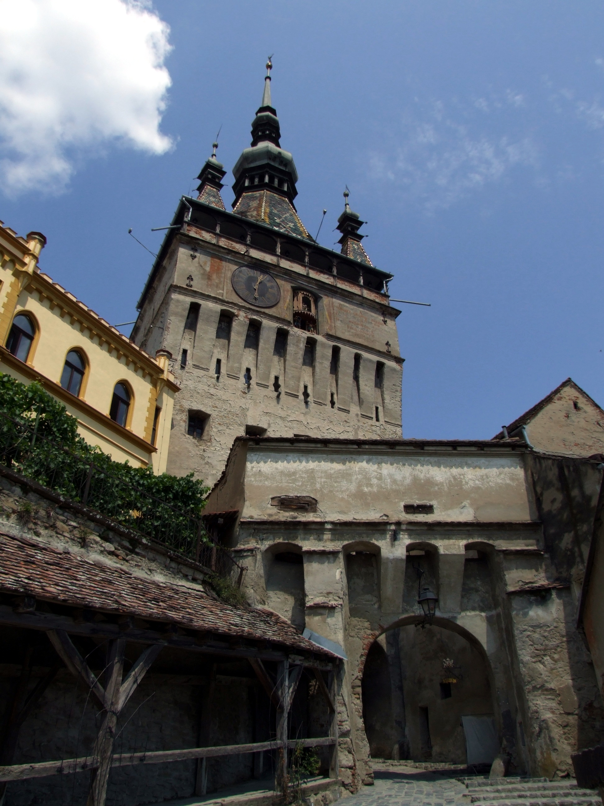 Sighişoara (Segesvár, Schäßburg) - Clock Tower